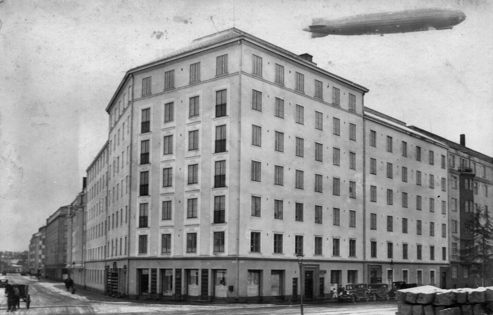 The airship LZ 127 "Graf Zeppelin" in Helsinki in 1930. Image taken of Eino Leinon katu 12